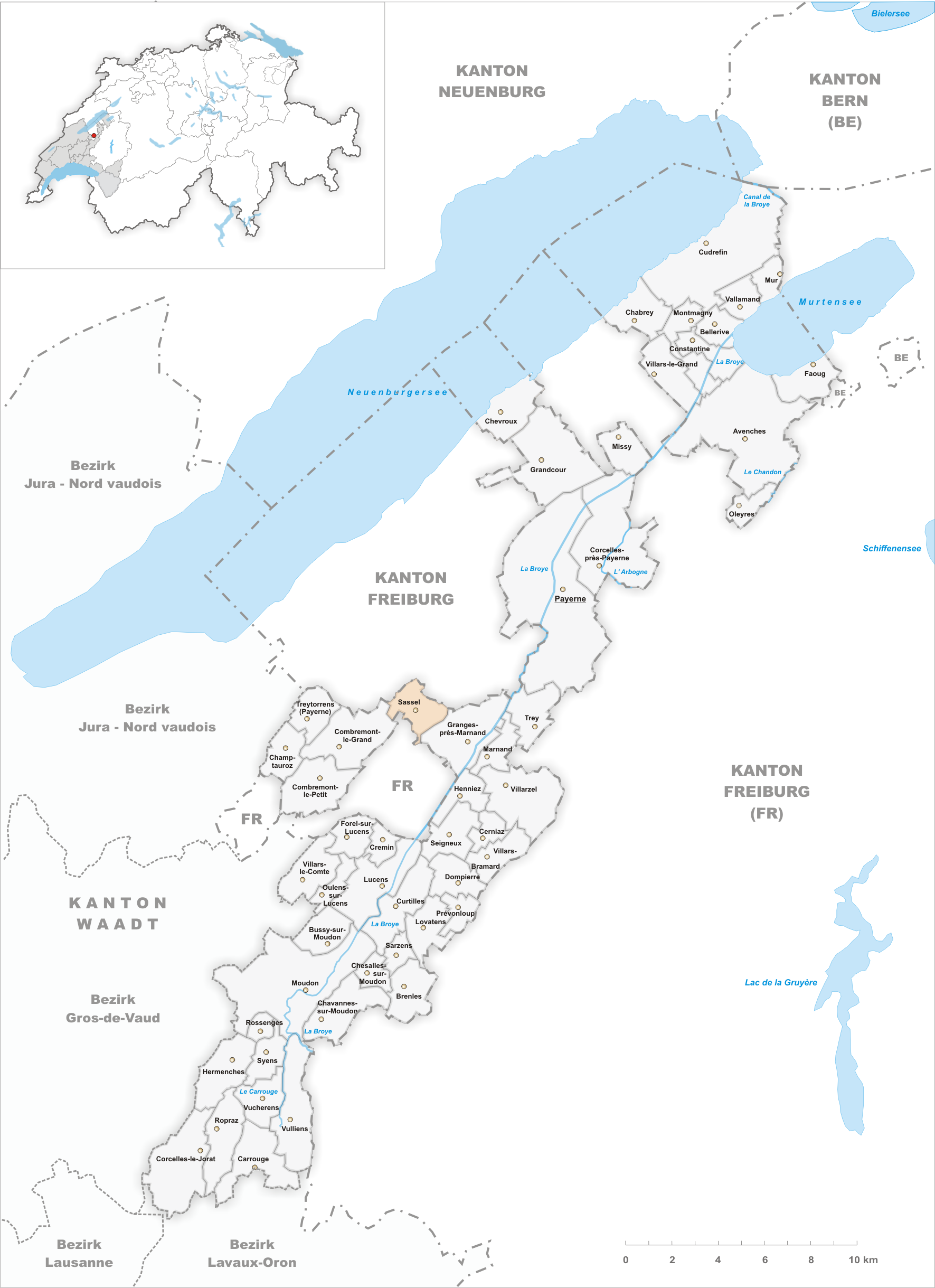 Municipality Sassel